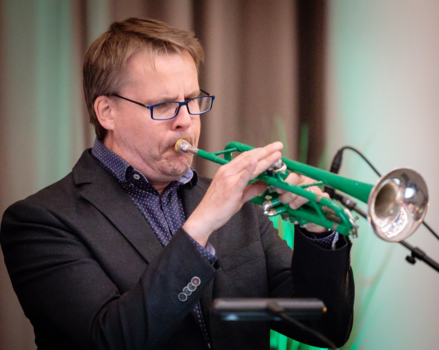 Roy Nikolaisen with Kjell Gunnar Hoff sekstett: A Tribute to Hank Mobley at the stage of Magazinet. The concert was part of Kongsberg Jazzfestival and took place on 07. July 2017. Lineup: Kjell Gunnar Hoff (tenor saxophone) Roy Nikolaisen (trumpet) Halvard Kausland (guitar) Madars Kalnins (piano) Andris Grunte (double bass) Kaspars Kurdeko (drums)